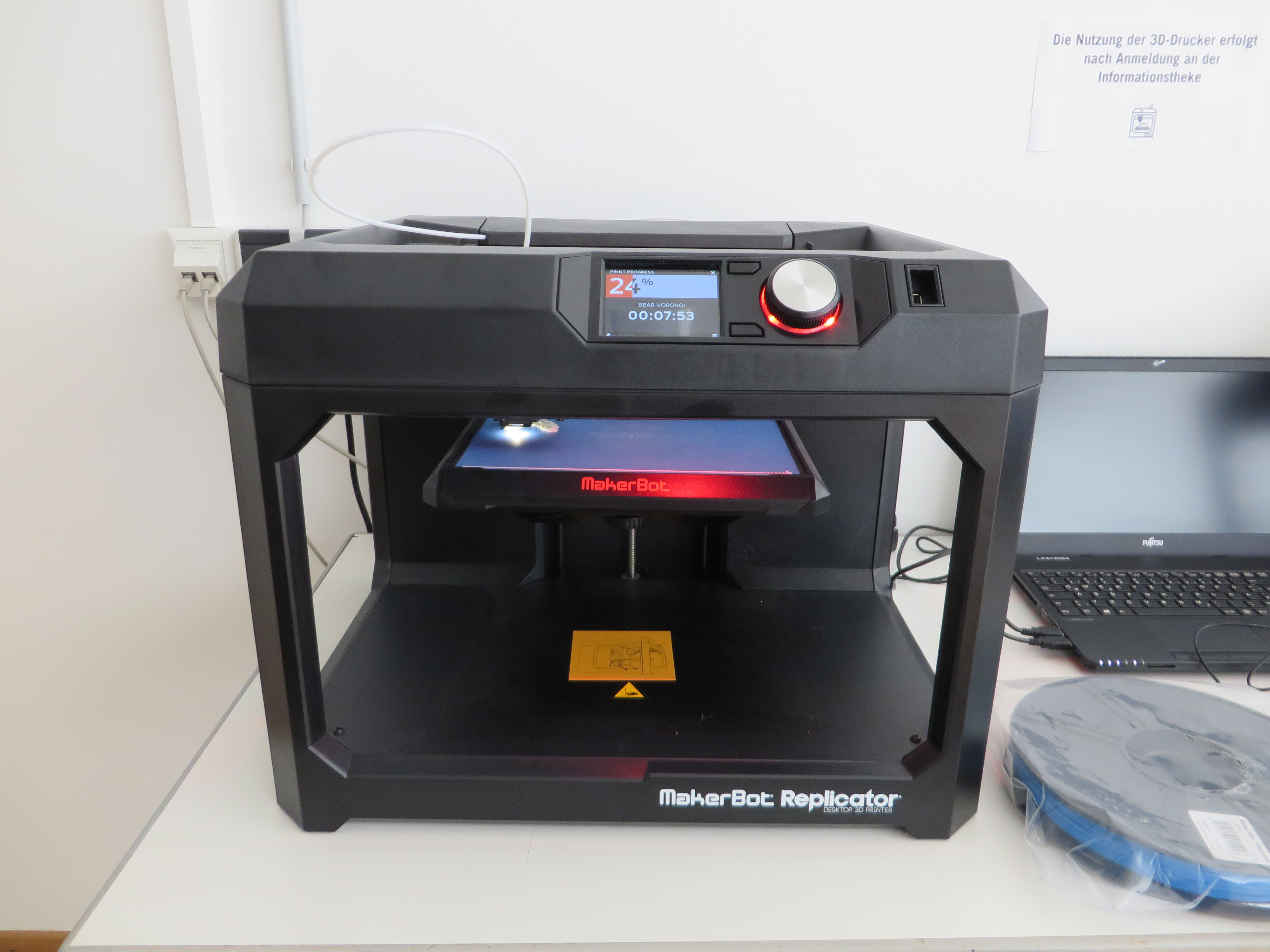 3D printer Makerbot Replicator (5th generation) at Zentralbibliothek Witten, Germany